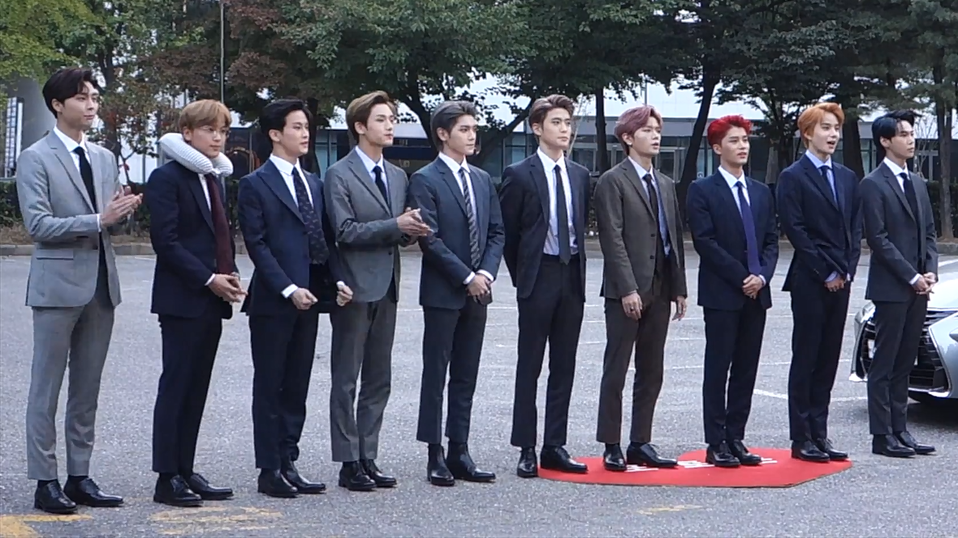 NCT 127 going to a Music Bank recording on October 12, 2018.